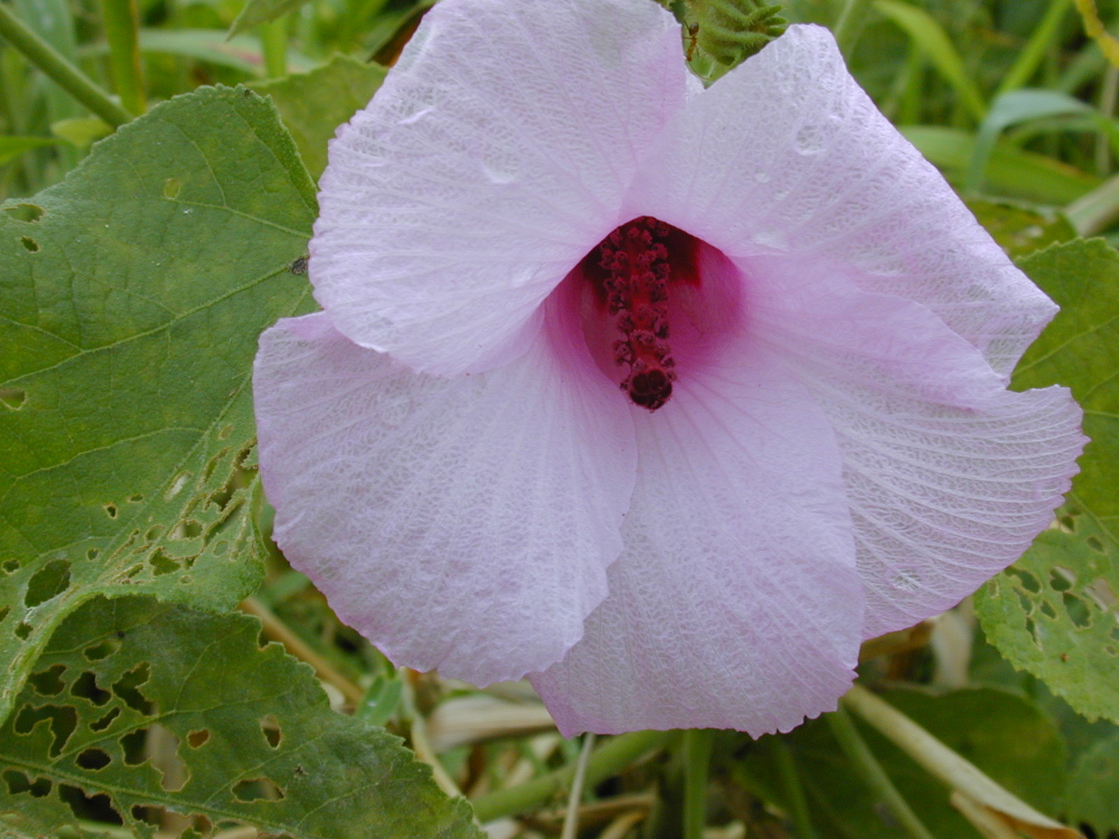 Hibiscus furcellatus (flower). Location: Maui, Nahiku